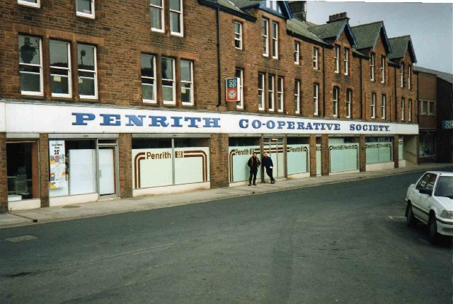 Penrith Co-operative Society supermarket exterior in Penrith, Cumbria, England